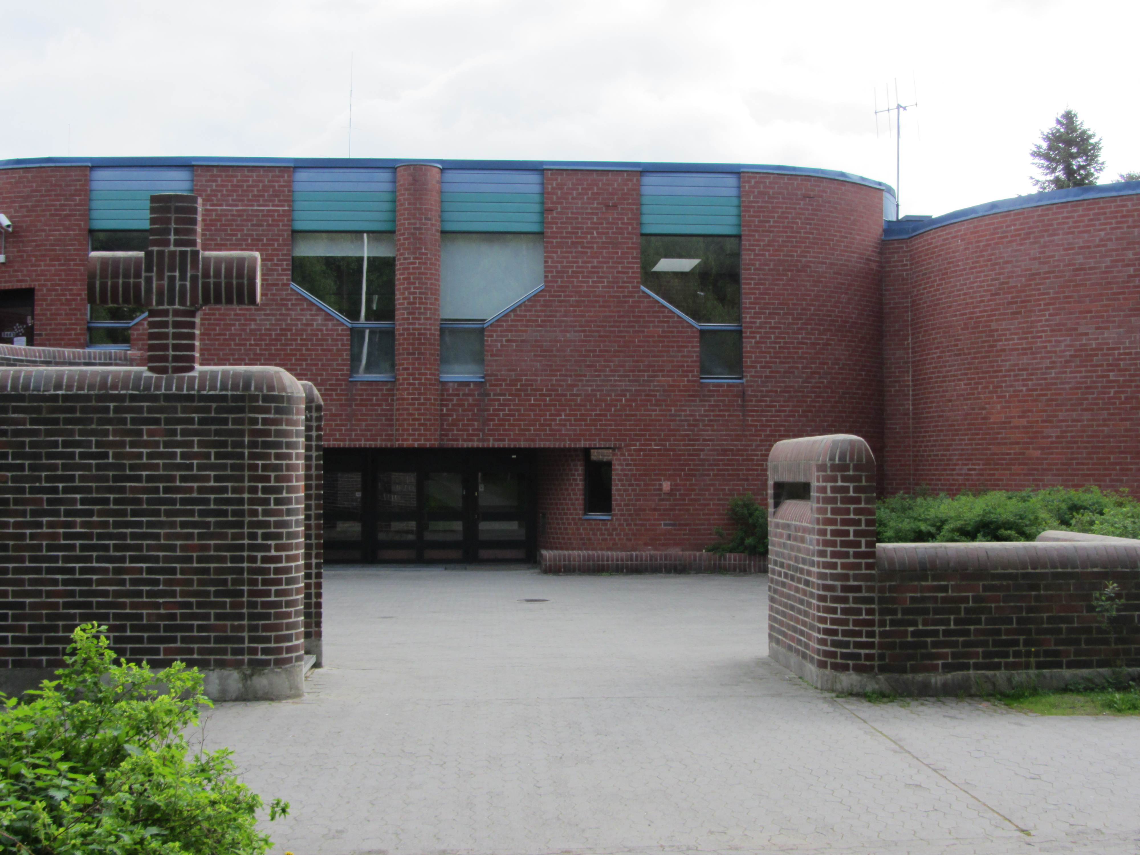 Hervanta Church in Tampere, Finland